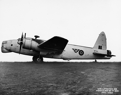 One of the early fittings of ASV Mk. III to an operational aircraft, in this case Wellington XII MP512. It is shown on the ground at Brooklands, where it was fit with the radar. MP512 first served operationally with No. 172 Squadron RAF, and later with No. 3 and 6 operational training units. The radar scanner is fit into the teardrop fairing under the nose. The censor has colored over the background.